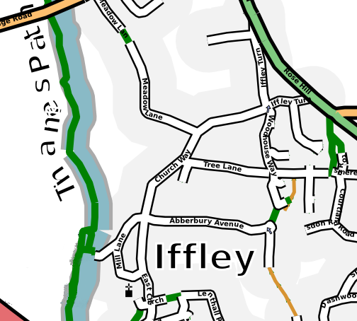 A map of Iffley Village in Oxford. Based on OpenStreetmap data, as of Sunday 3rd September 2006, and produced using OsmaRender